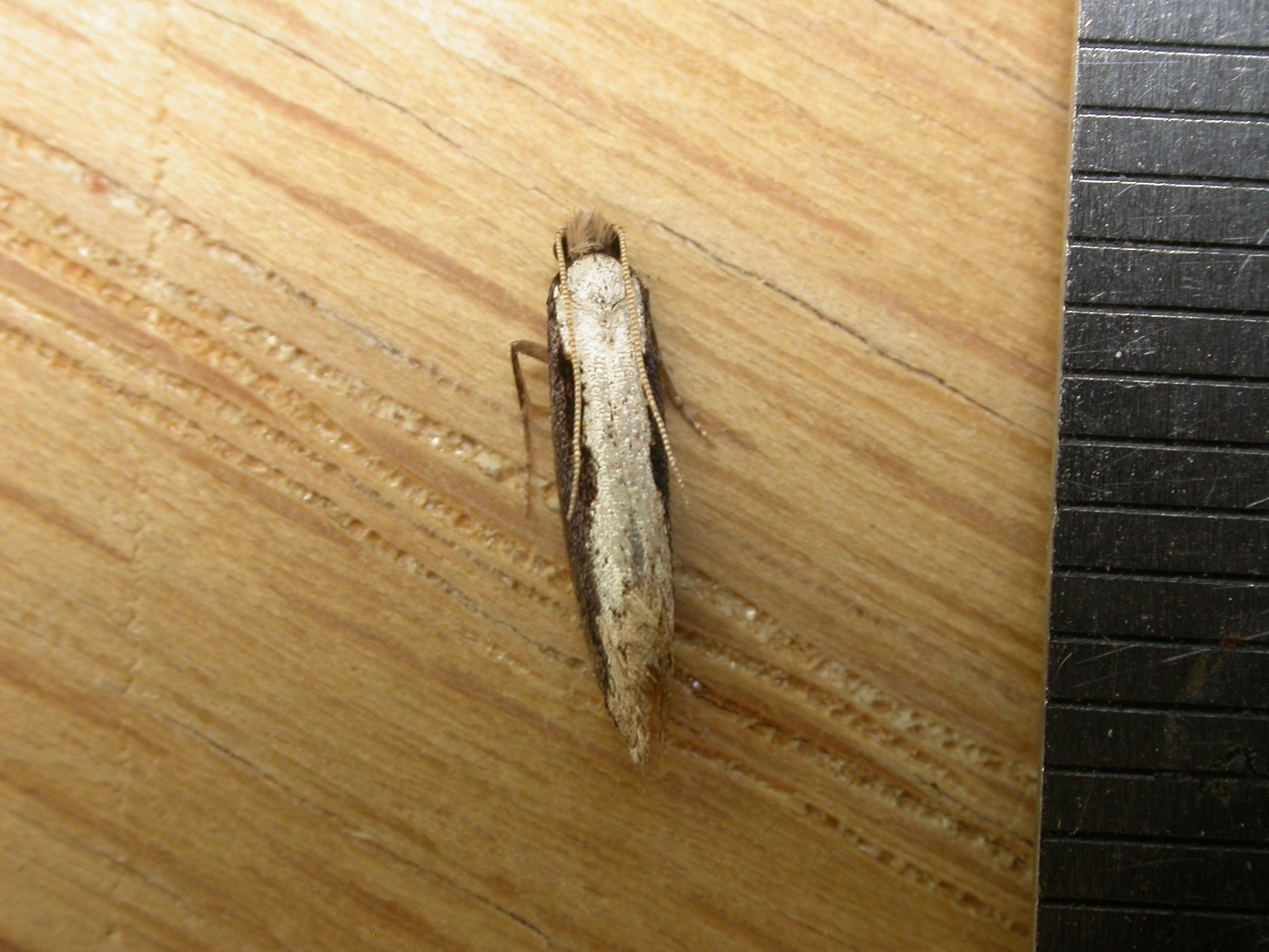 Erechthias diaphora (Meyrick, 1893), to MV light, Blackheath, NSW, 13/14 January 2009